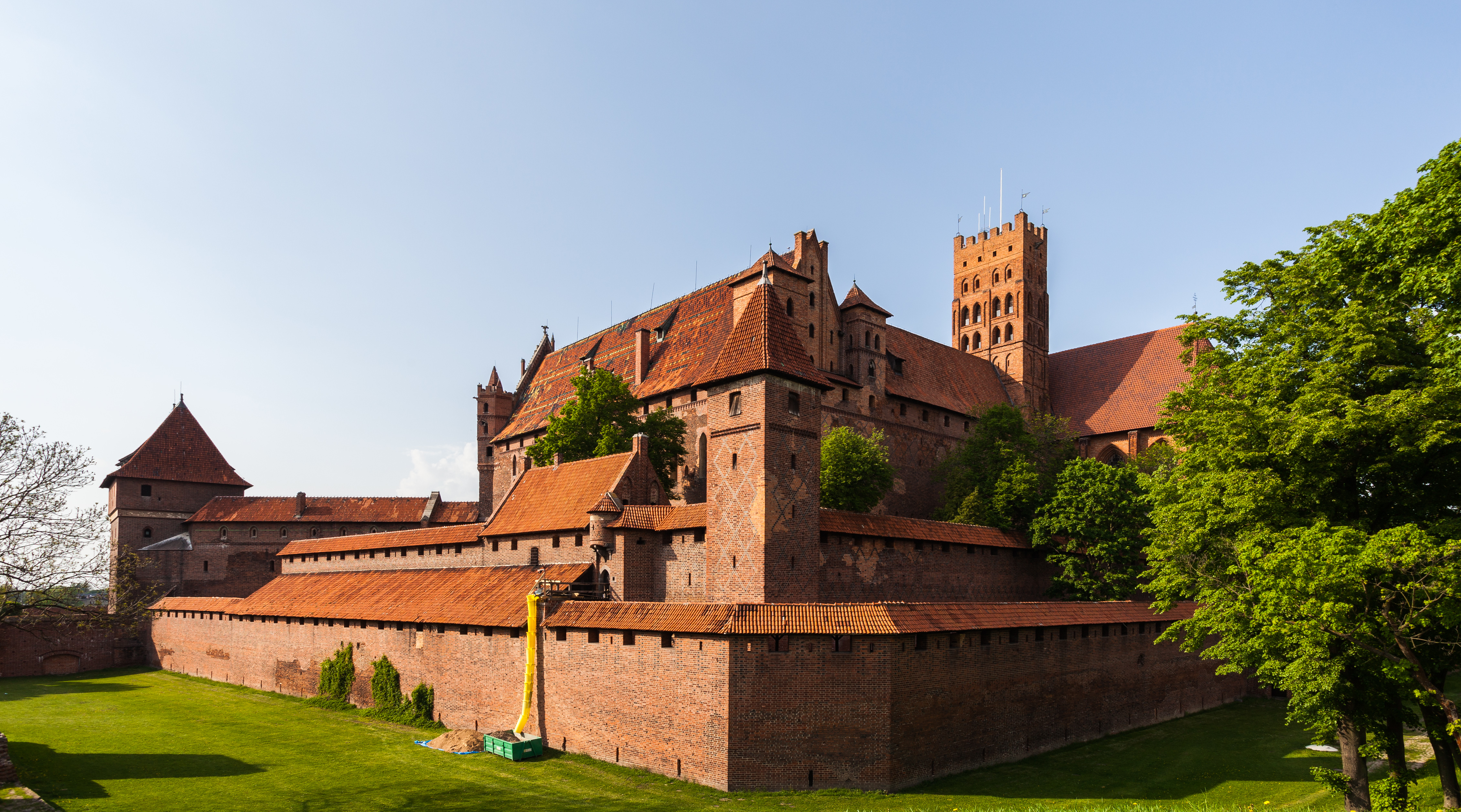 Malbork Castle, Poland